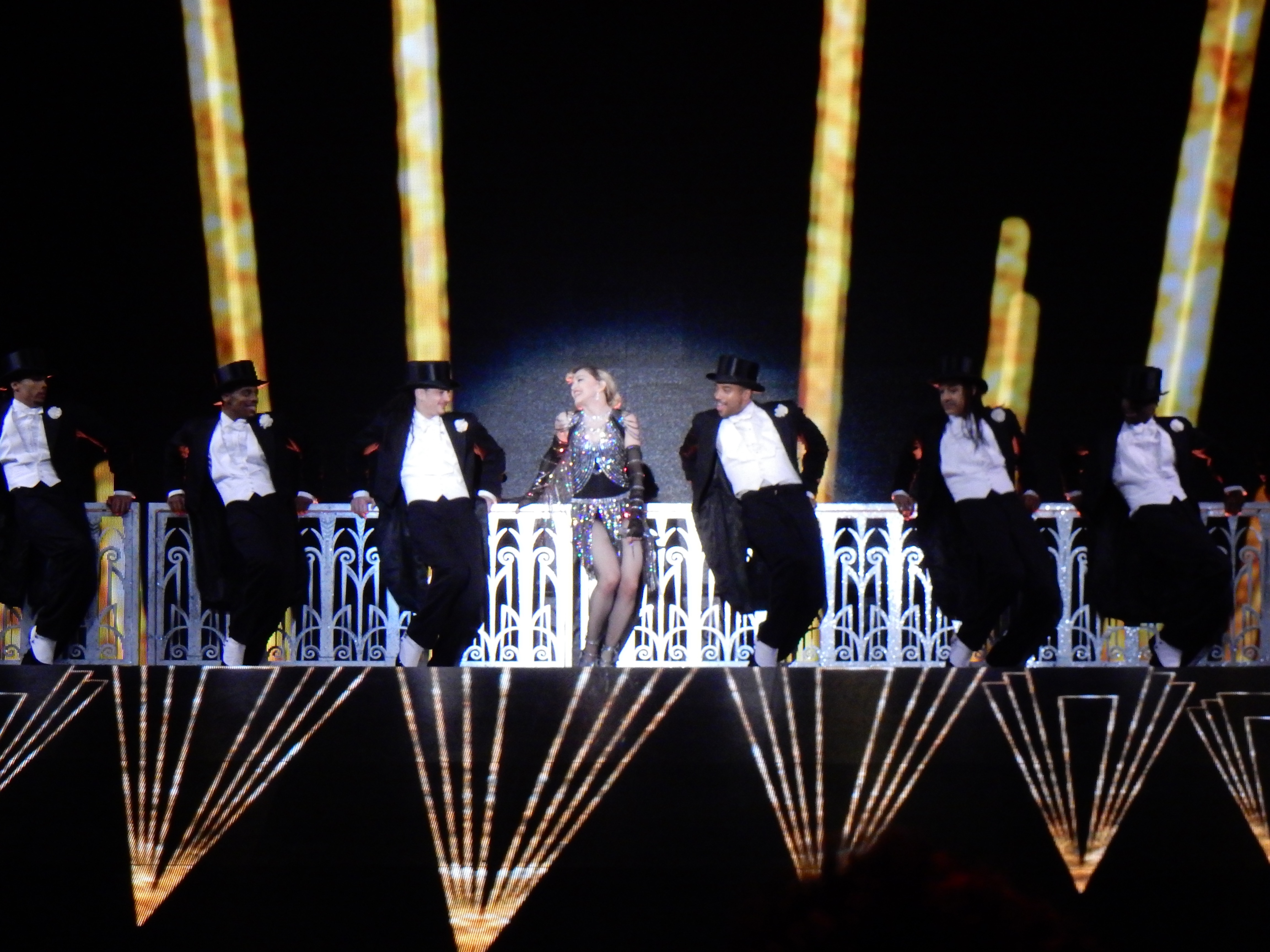 Madonna - Rebel Heart Tour Cologne 2 Madonna - Rebel Heart Tour Cologne 2